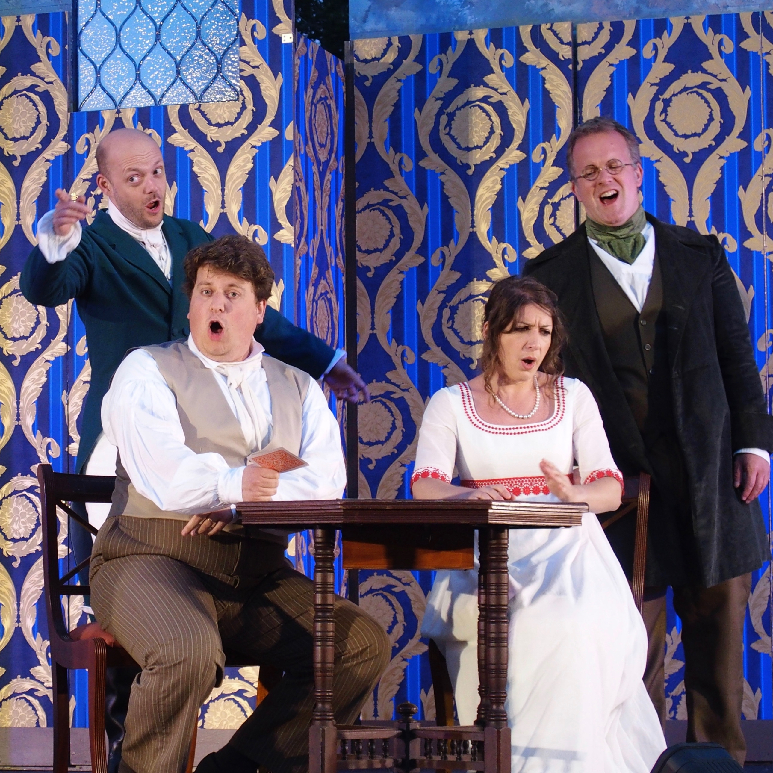 Staged performance (2017) by Bampton Classical Opera of Salieri's comic opera La scuola de' gelosi (The School of Jealousy)